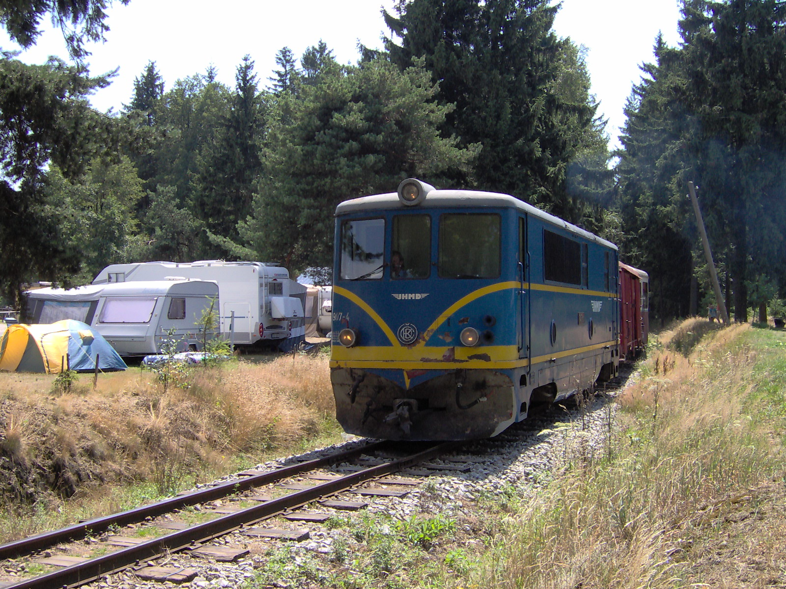 Narrow gauge diesel locomotive 705.907 (T 47.007) of JHMD, near by Osika pond and camp, rail track Jindřichův Hradec - Nová Bystřice, Czech Republic